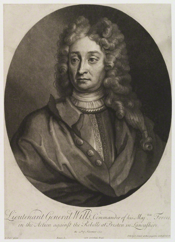 Portrait of Sir Charles Wills (1666–1741), British general.